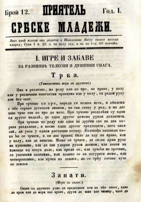 Front page